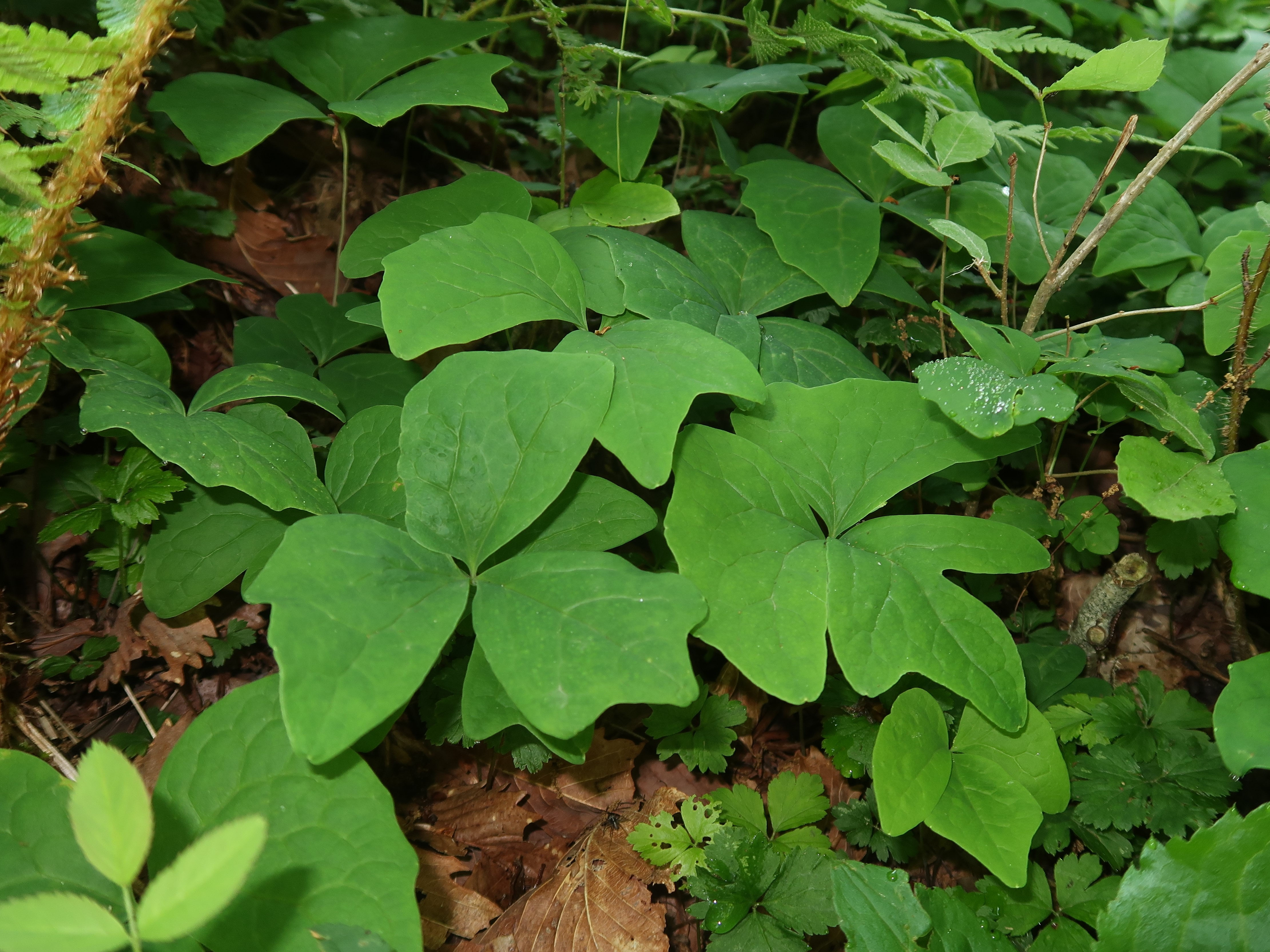 Achlys japonica, Odate city, Akita pref., Japan